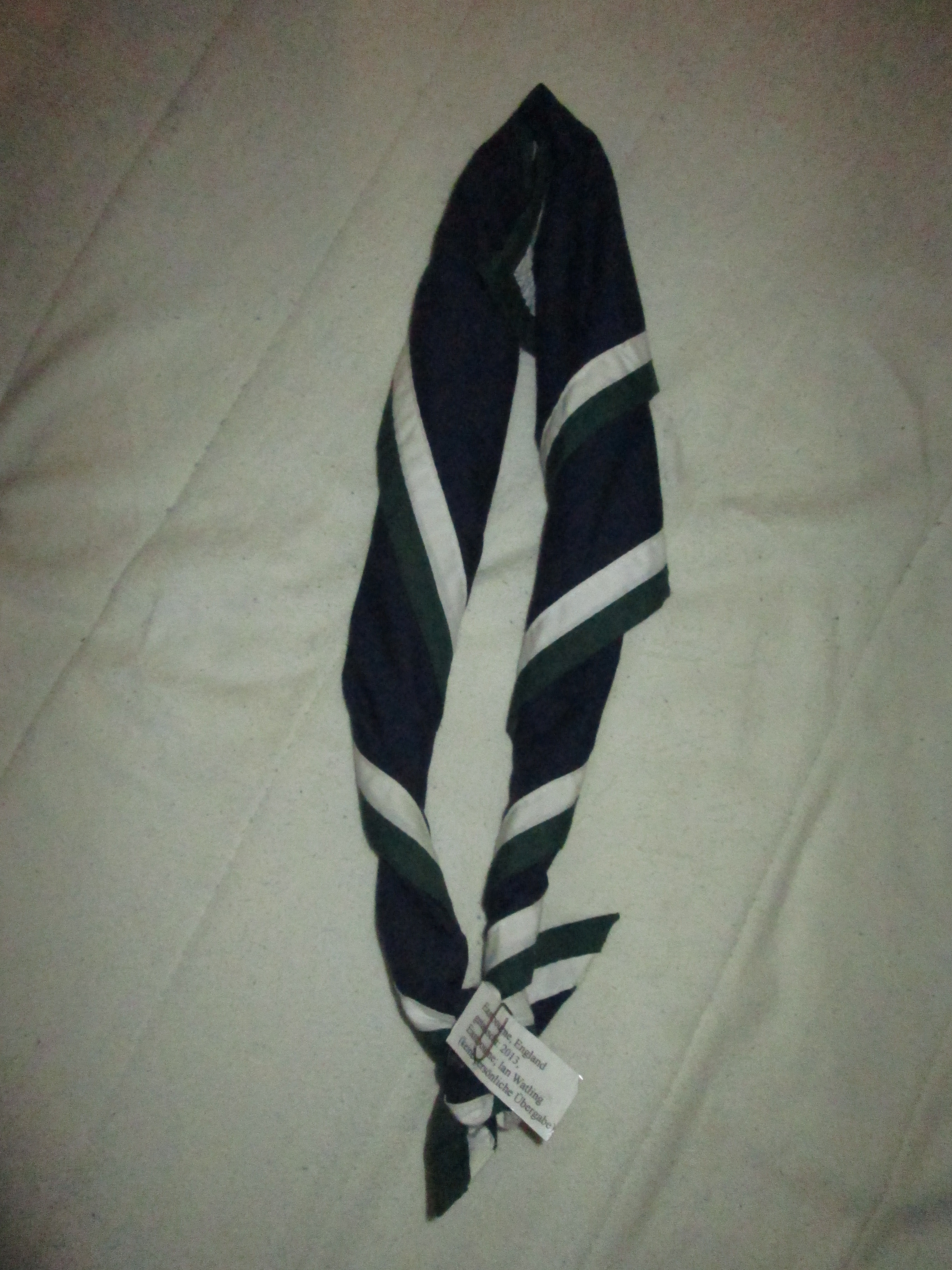 Neckerchief of the scouts of Eastbourne.